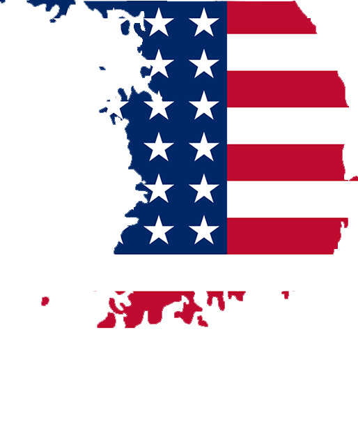 Flag map of southern Korea in 1945-1948